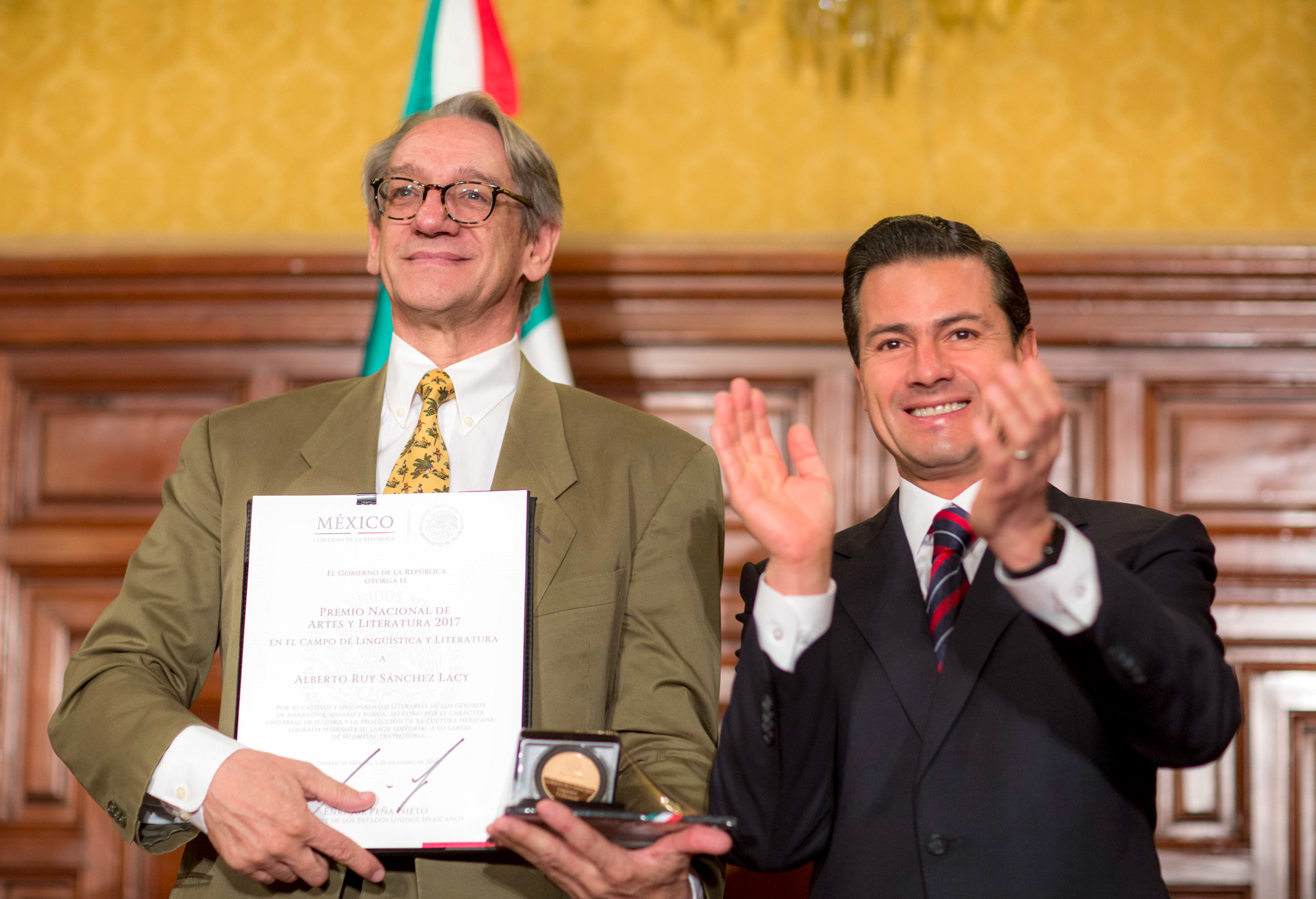 Alberto Ruy Sanchez Lacy receiving Arts and Literature National Prize 2017 from president Enrique Peña Nieto.